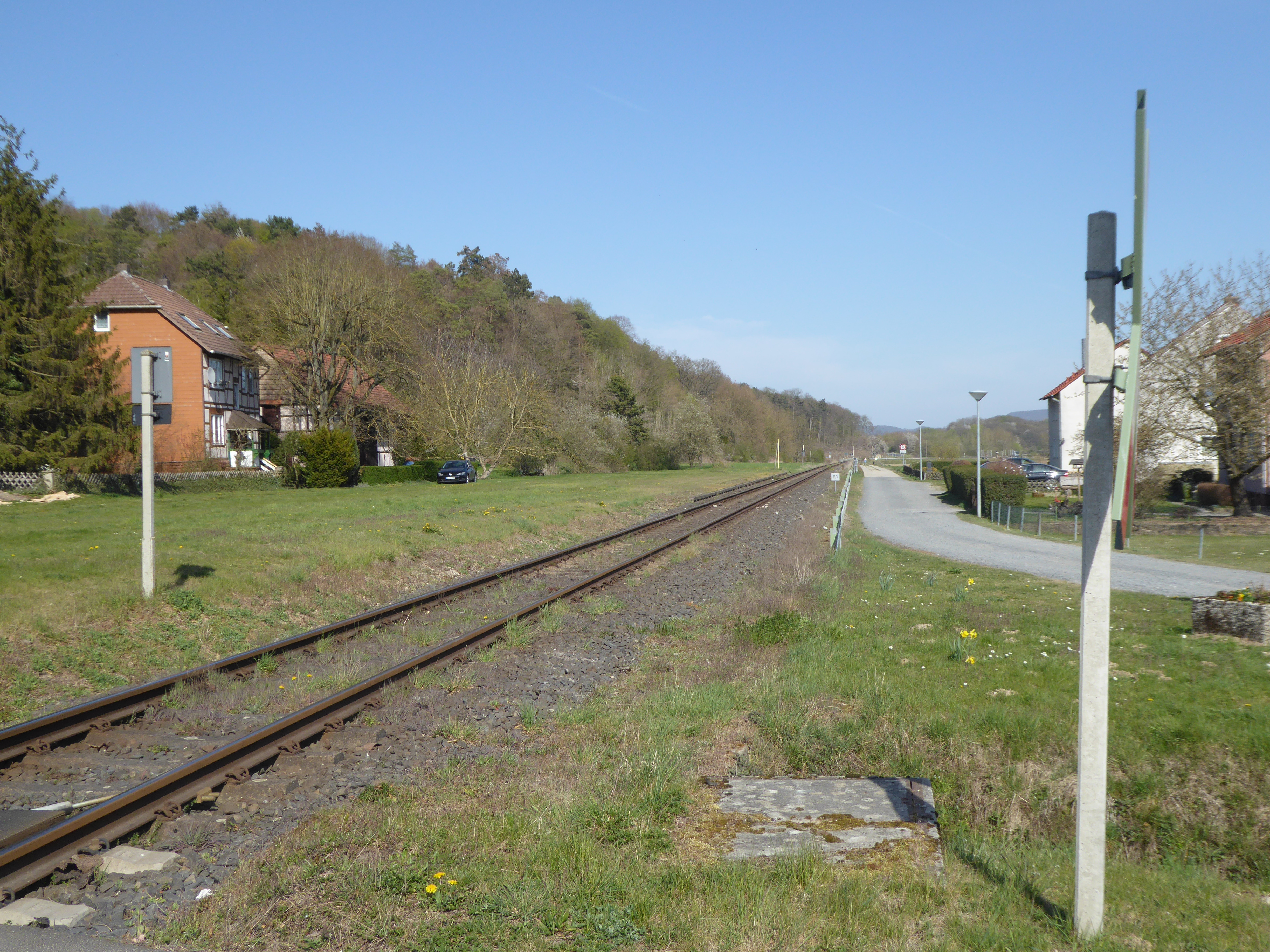 Former Railway Station in Emmenhausen